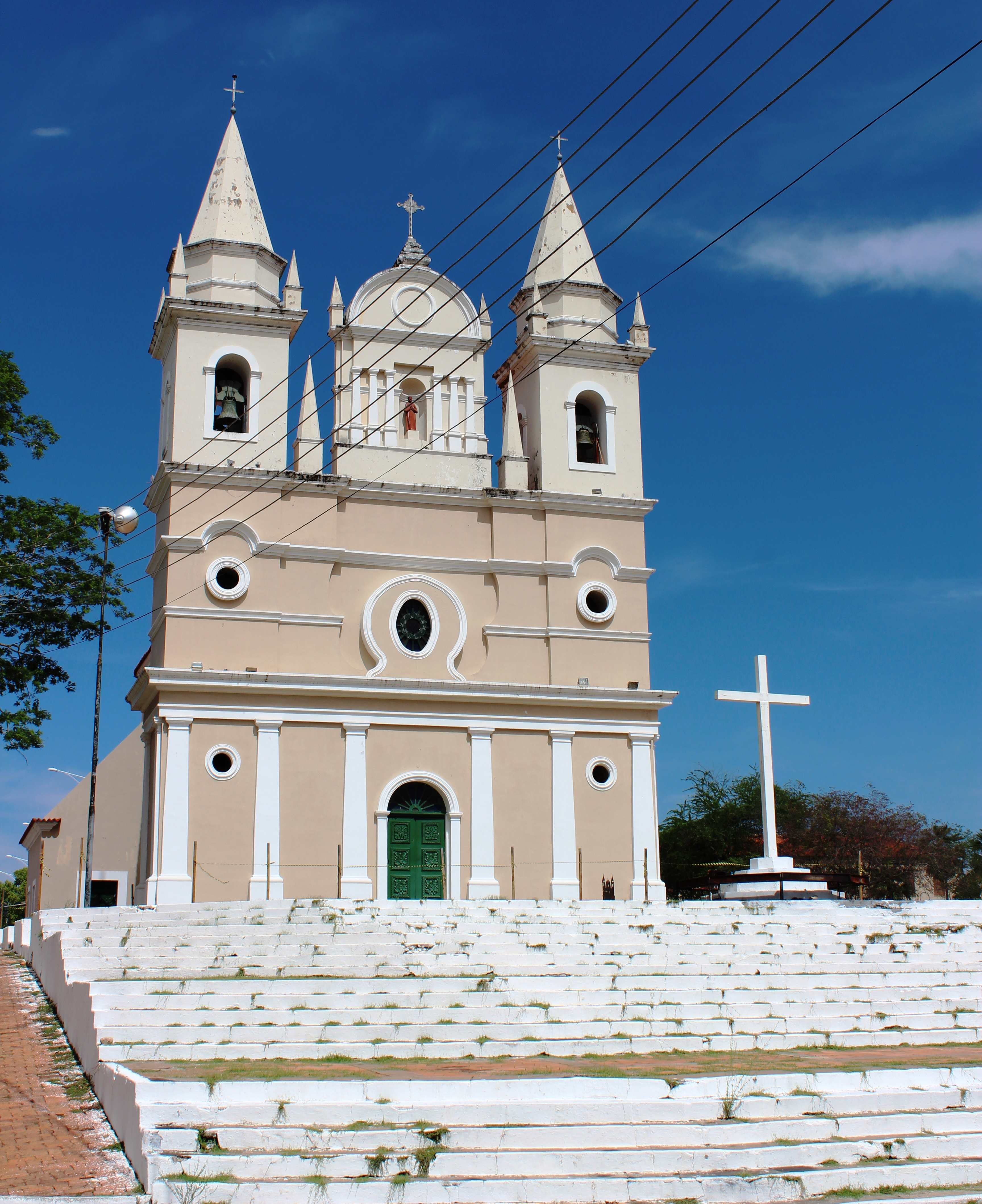 Benedict the Moore Church in Teresina, Piauí, Brazil.